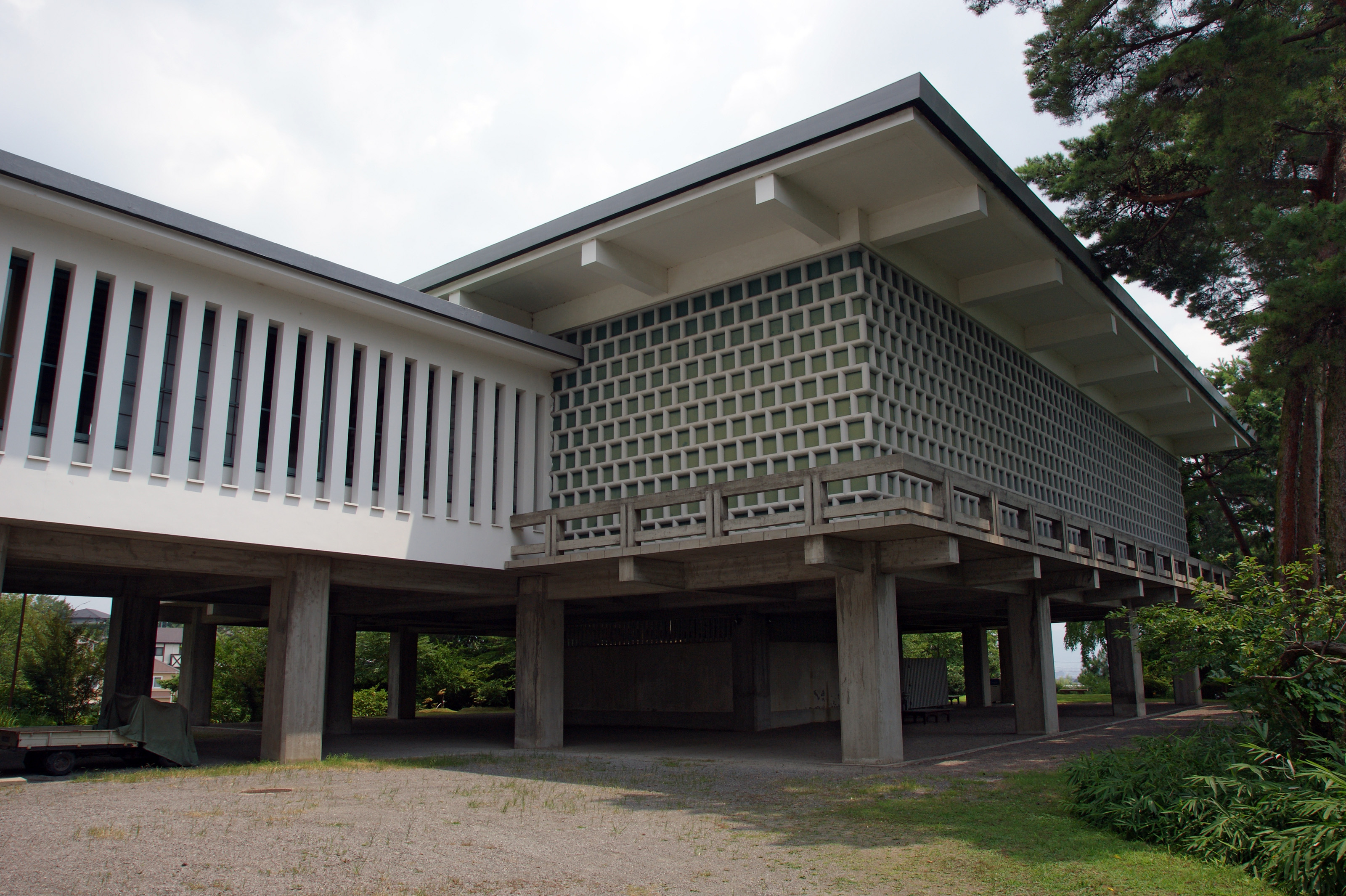 The Museum Yamato Bunka Kan in Nara, Nara prefecture, Japan